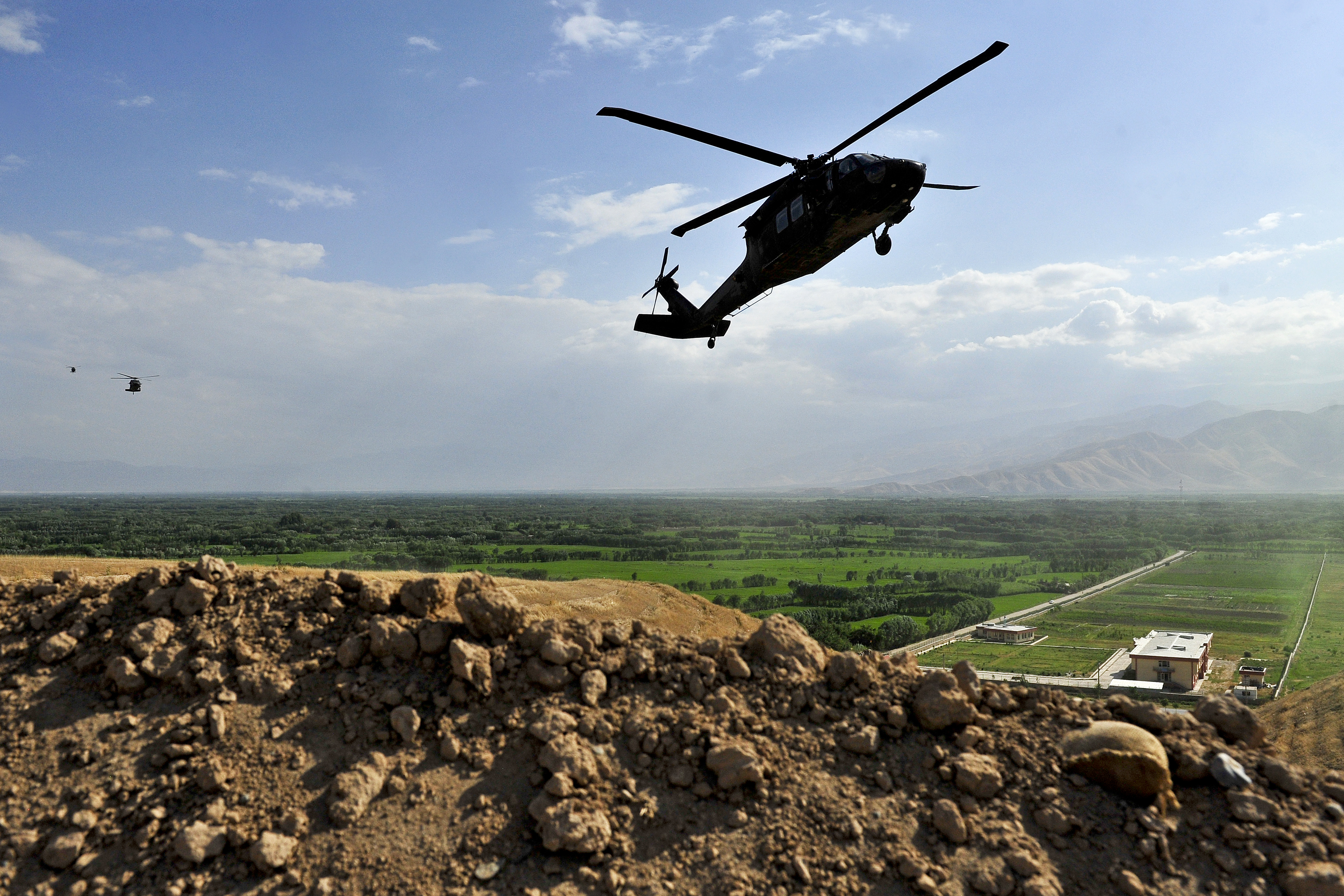 Samangan Province, Afghanistan